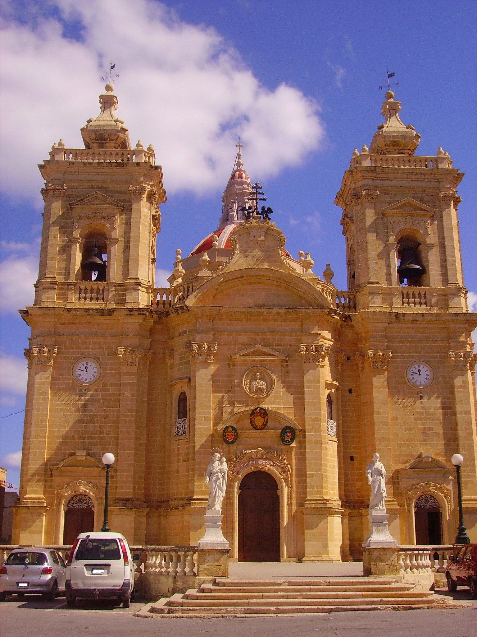 Facade of the Basilica St. Mary Nativity, Xaghra